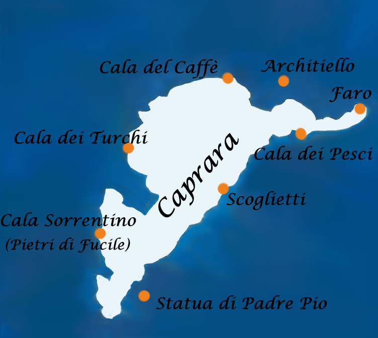 Caprara island - Tremiti